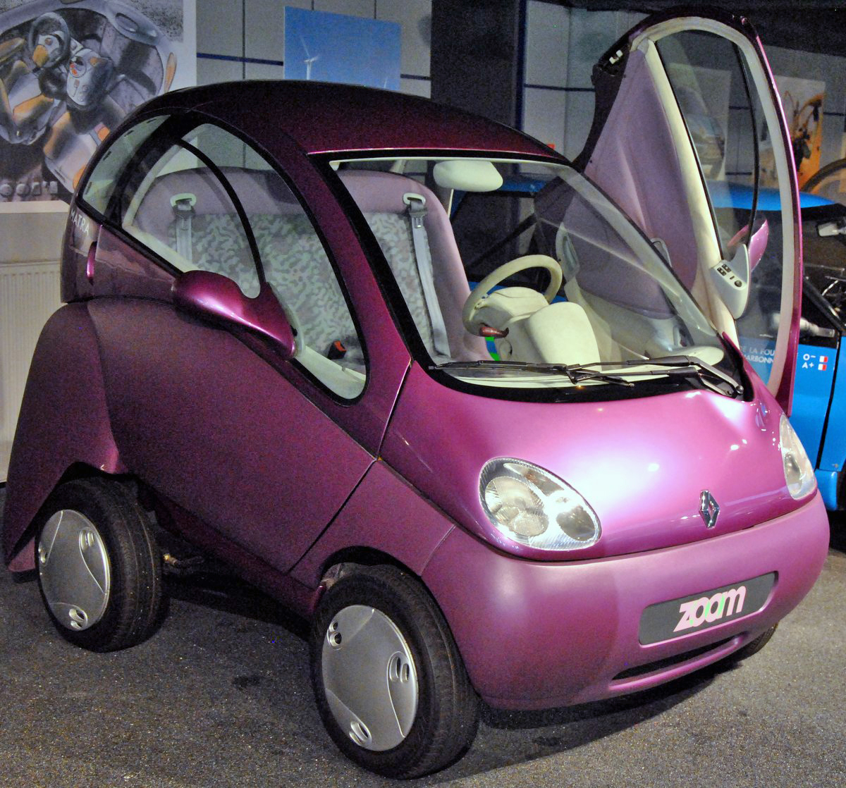 Matra Zoom at the Musée Matra, Remorantins, France. This electric city car concept could reach 120km/h and could drive 150km. The rear wheels could be pulled in and under the car for ease of parking; this photo shows the car in its "compressed" condition.